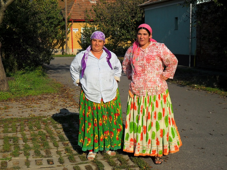 Gabor Gypsies from Transylvania, Romania.